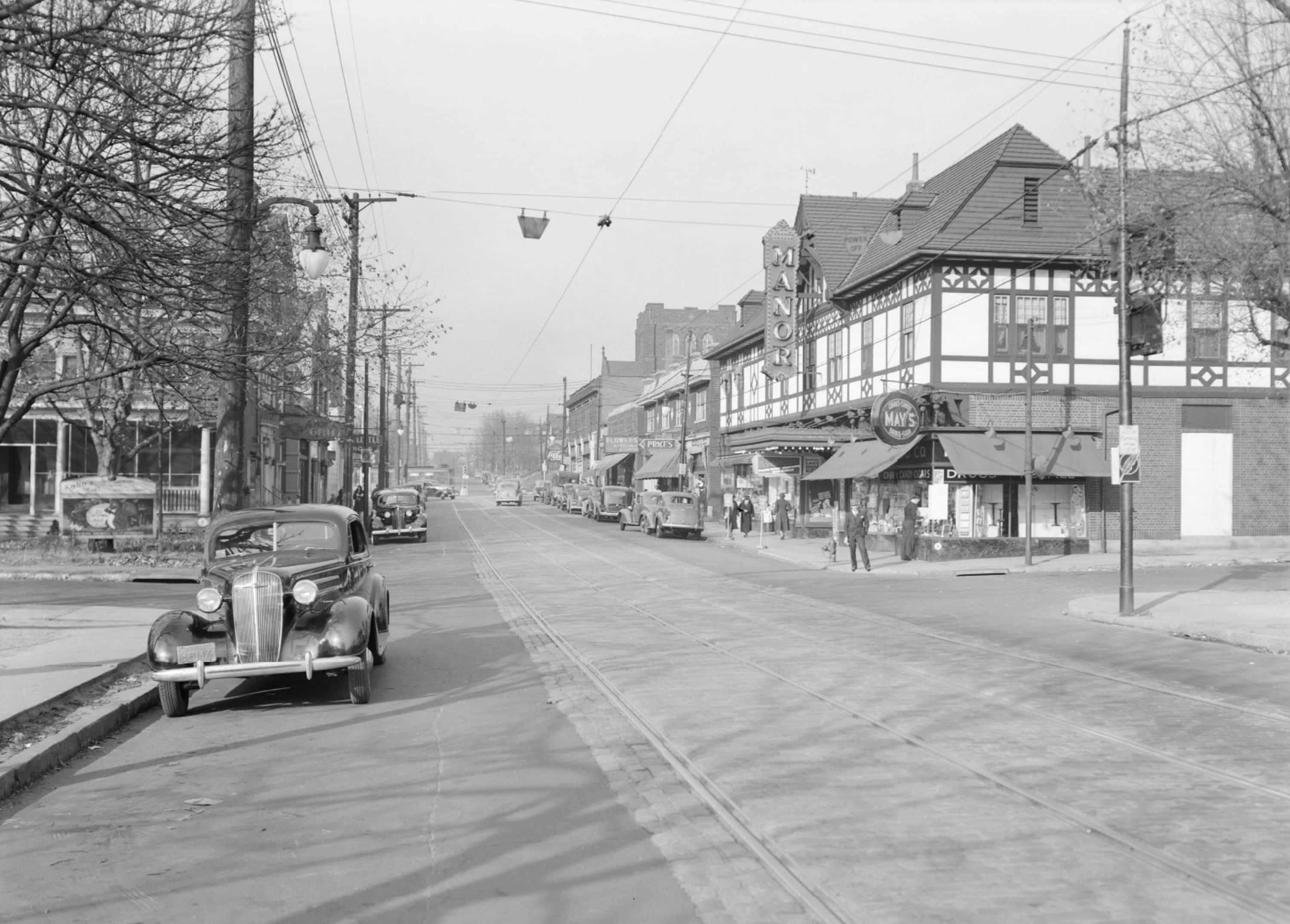 An image of the classic movie house Manor Theater. The building itself was finished in 1923, and it's plans are also in the public domain.